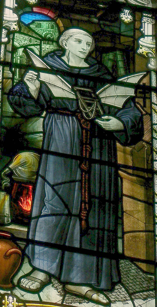 Elmer (the Flying Monk) of Malmesbury